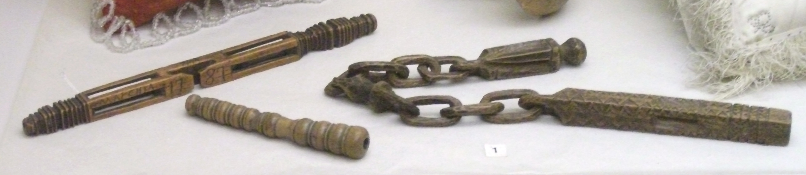 Knitting sheaths for holding the right hand needle when hand knitting, on display at Bedford Museum.